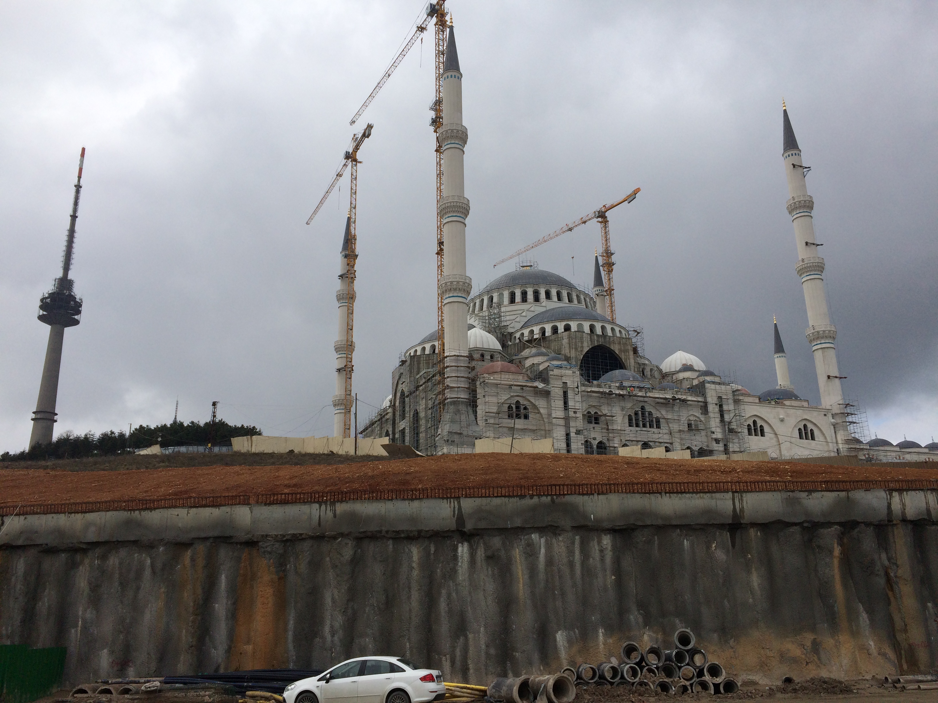 Çamlıca Mosque, construction Feb 2017